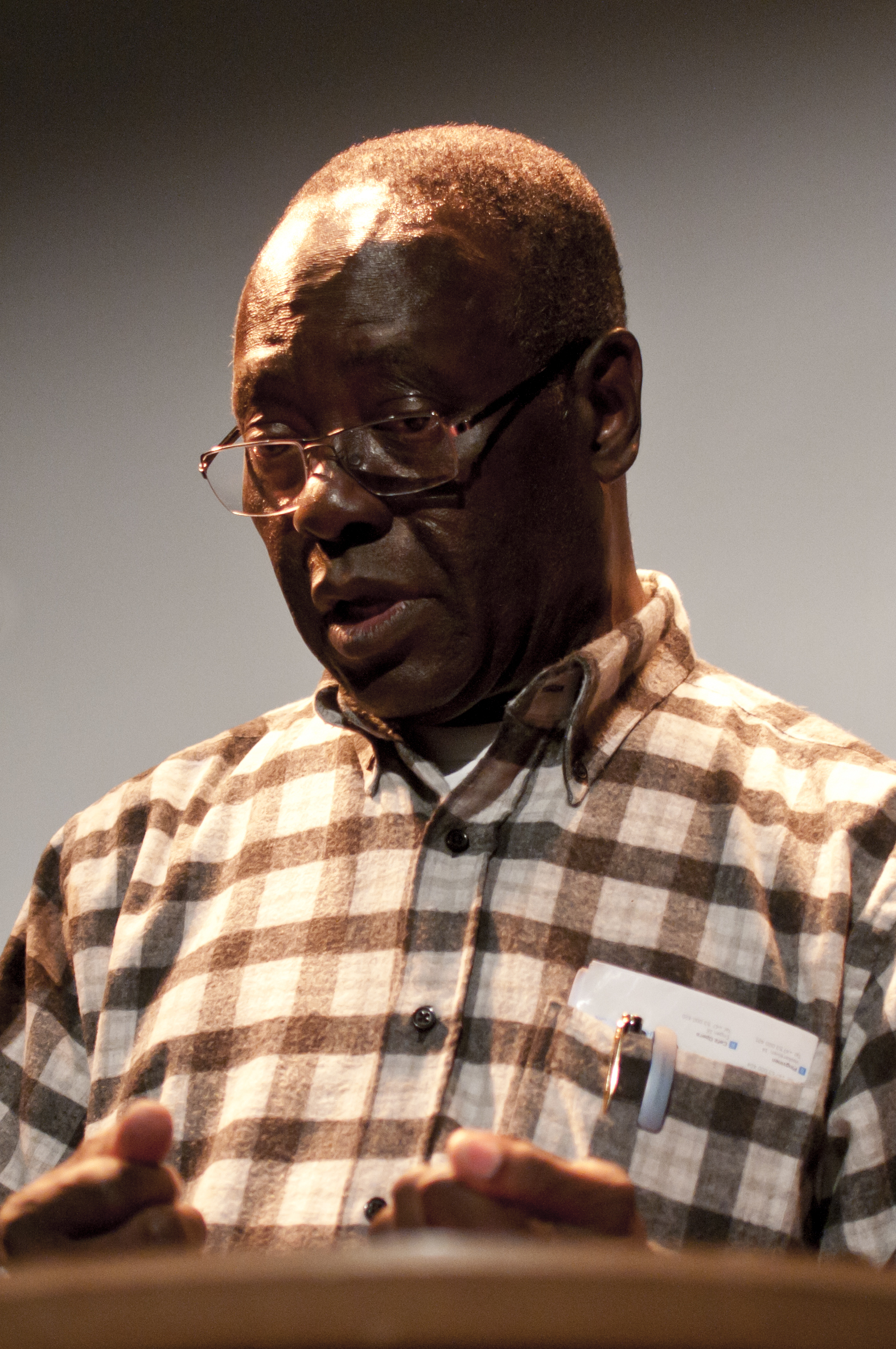 Tété-Michel Kpomassie, author of "An African in Greenland" visits The Bergen Student Society, October 18th 2011. Norsk (bokmål): Tété-Michel Kpomassie, forfatter av «En afrikaner på Grønland» taler for Studentersamfunnet i Bergen, 18. oktober 2011.